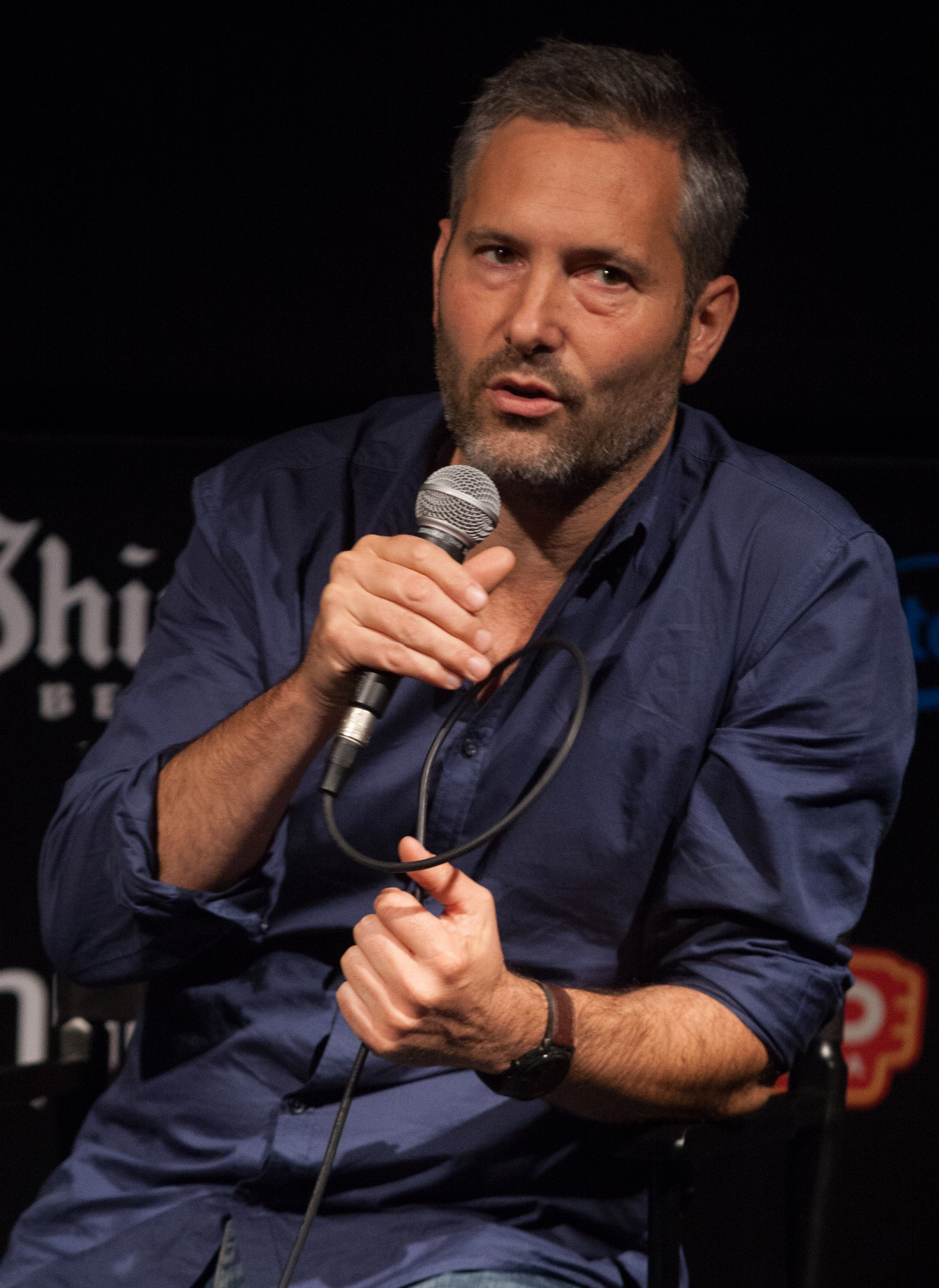 Q&A with Hans Herbots, The Treatment Fantastic Fest 2014 -6923.jpg